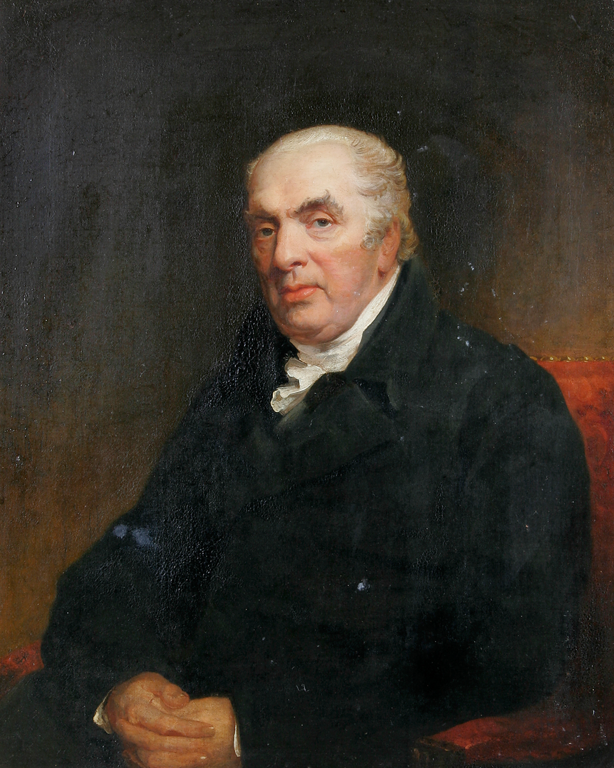 Portrait of Edward Rigby (1747–1821), English physician.